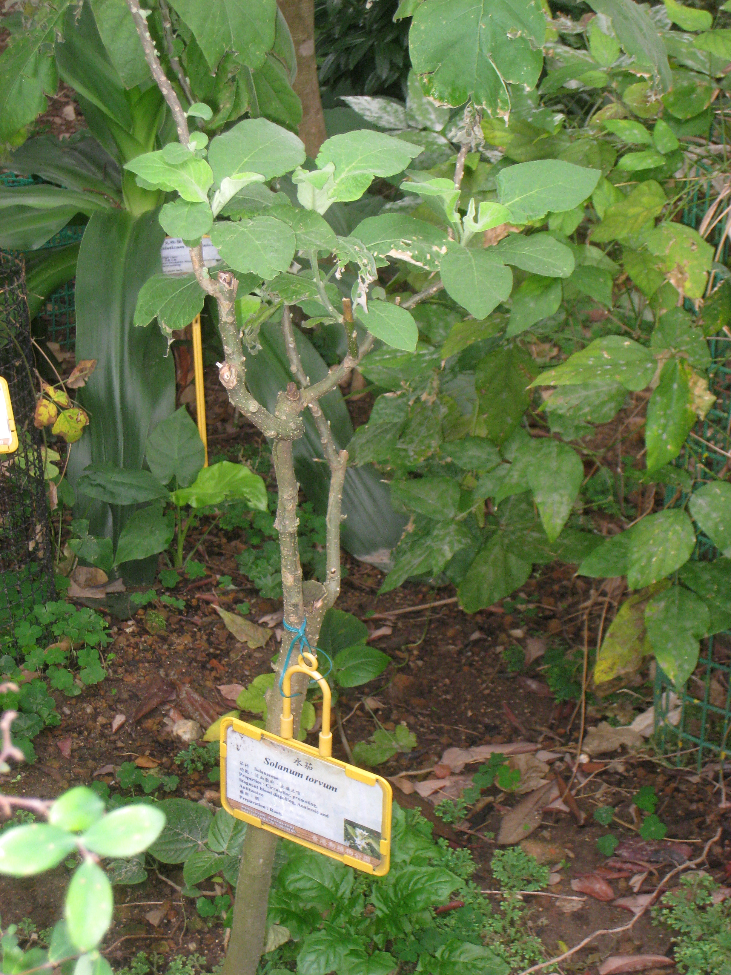 Solanum torvum. Plant specimen in the Hong Kong Zoological and Botanical Gardens, Hong Kong.